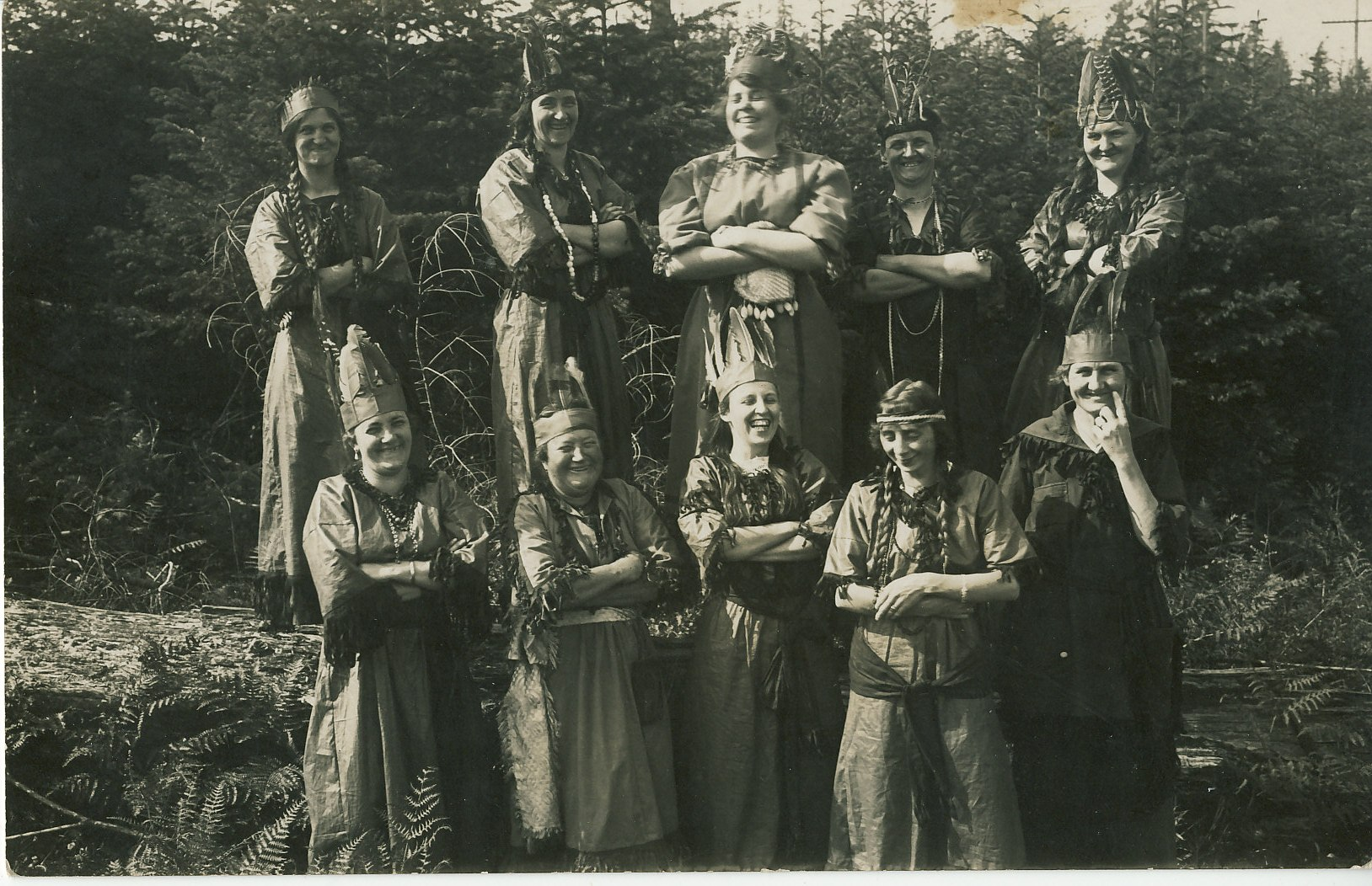 Eatonville Women Part of The Pocahontas Degree, auxiliary to IORM